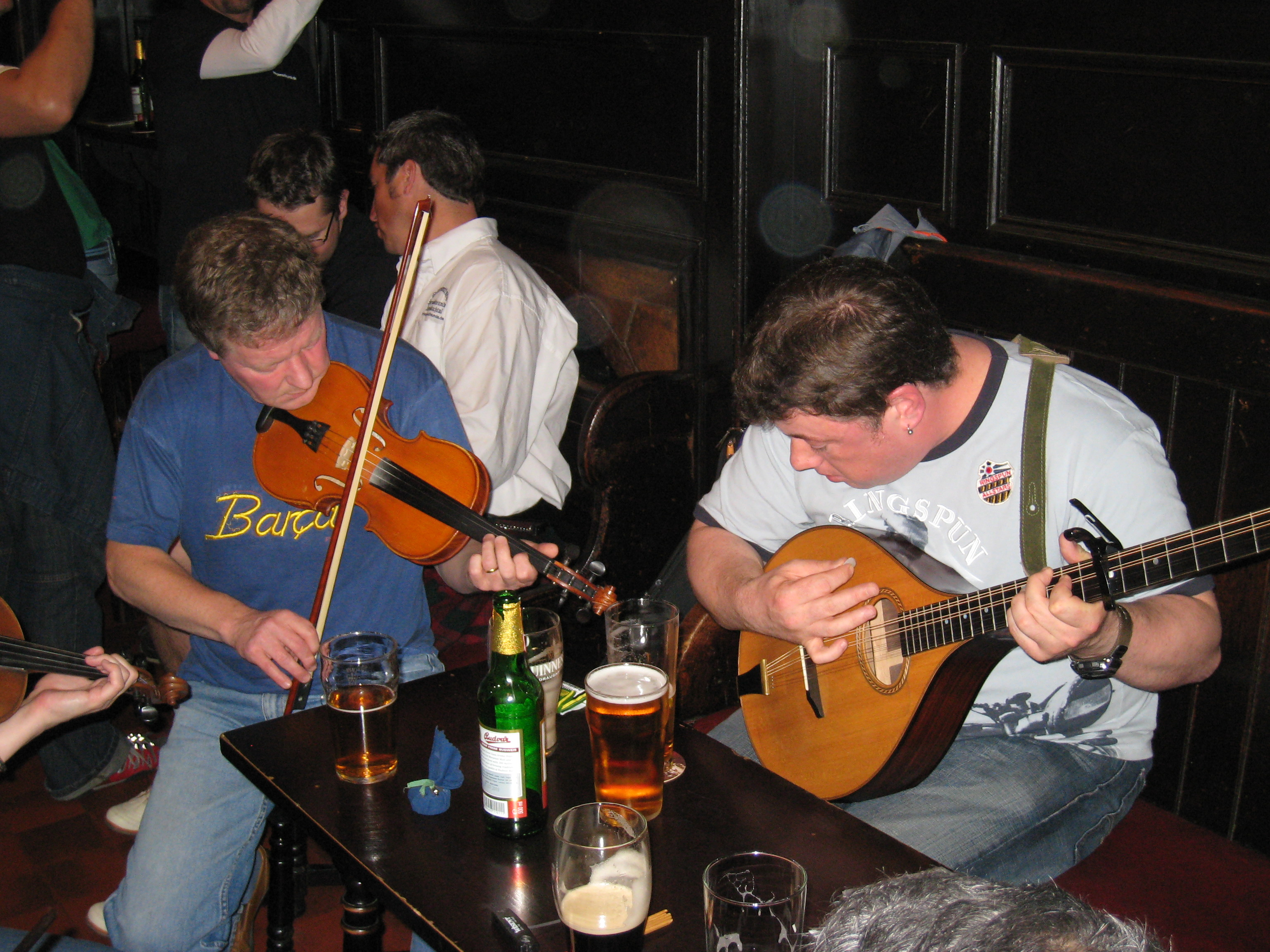 Musicians playing in a pub in Edinburgh